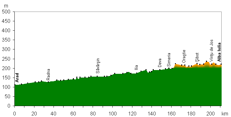 elevation profile of the railway track Arad-Alba Iulia